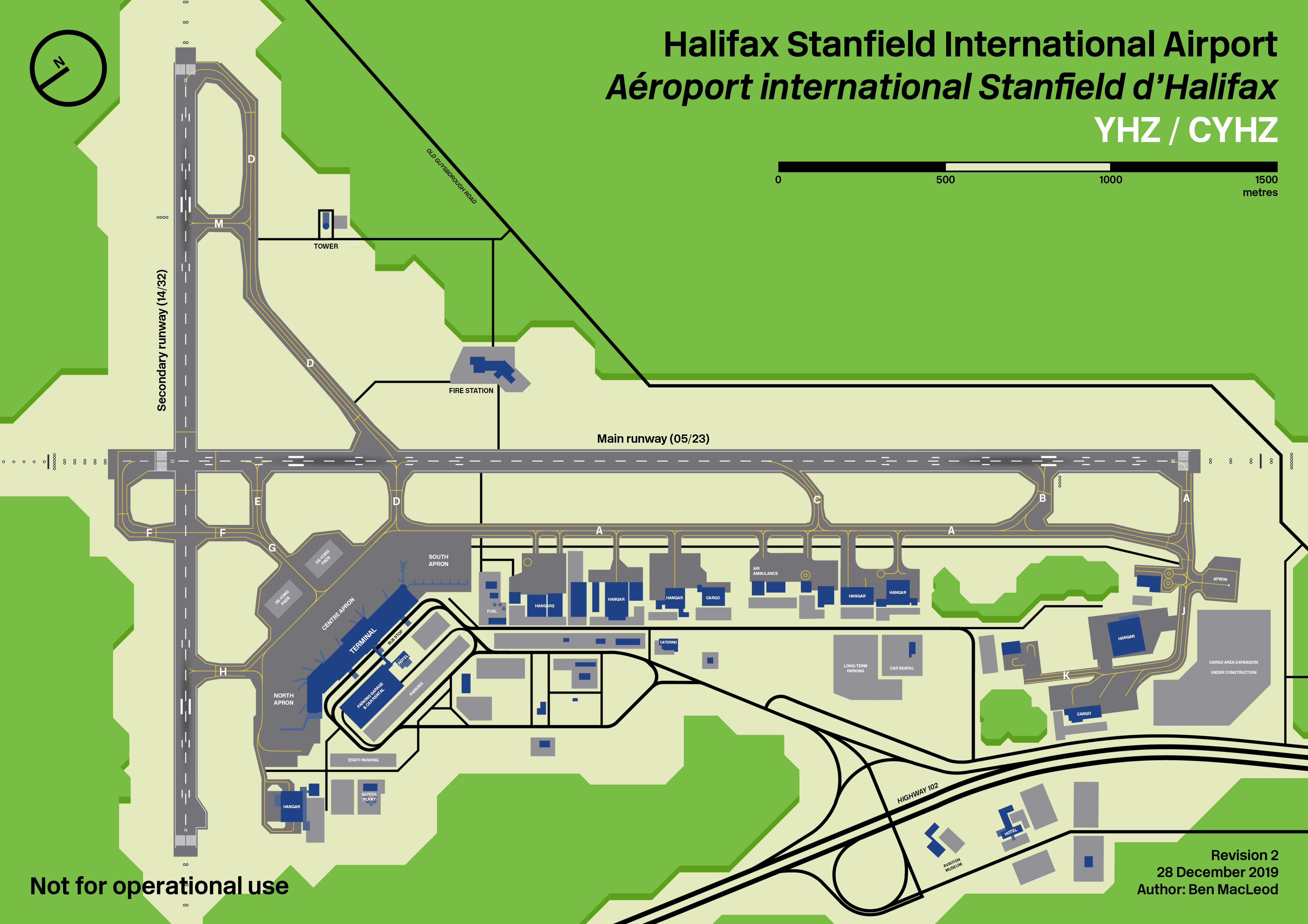 Diagram of Halifax Stanfield International Airport in Halifax, Nova Scotia, Canada. (Chinese version)